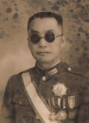 Wang Lingji (Wang Ling-chi) (1883 - 1967)